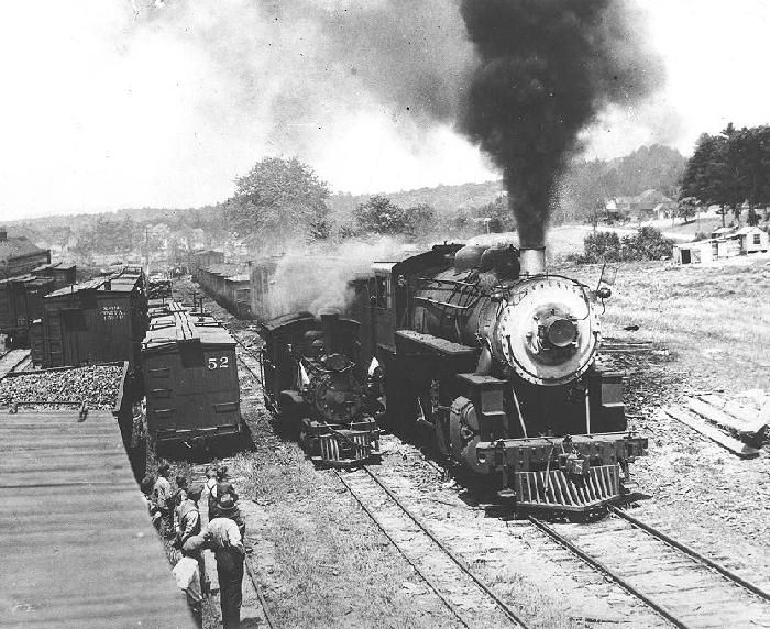 Bridgton & Saco River Narrow Gauge Railroad engine No 5 built by Portland (ME) Works at the Bridgton Junction yard in Hiram and Maine Central Railroad engine No 510